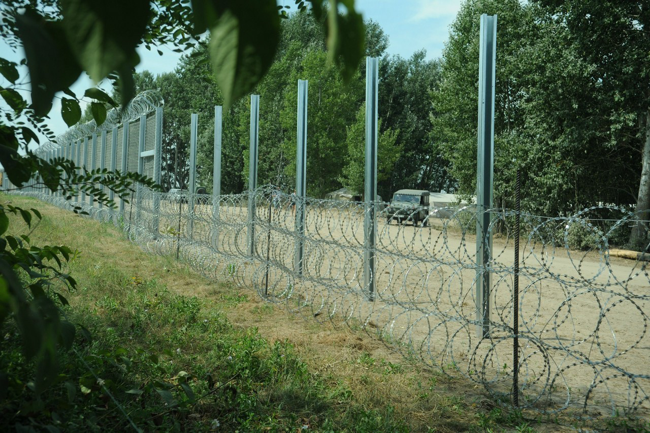 Barrier in Hungarian-Serbian border